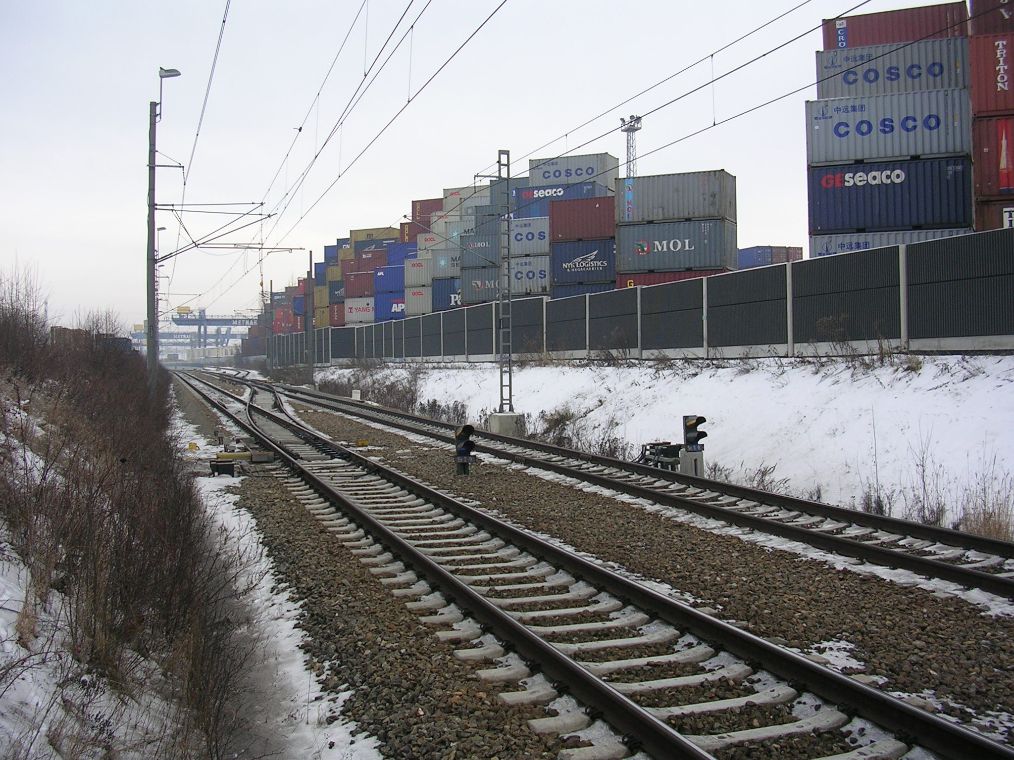 Horní Měcholupy and Uhříněves, Prague. Container terminal METRANS.